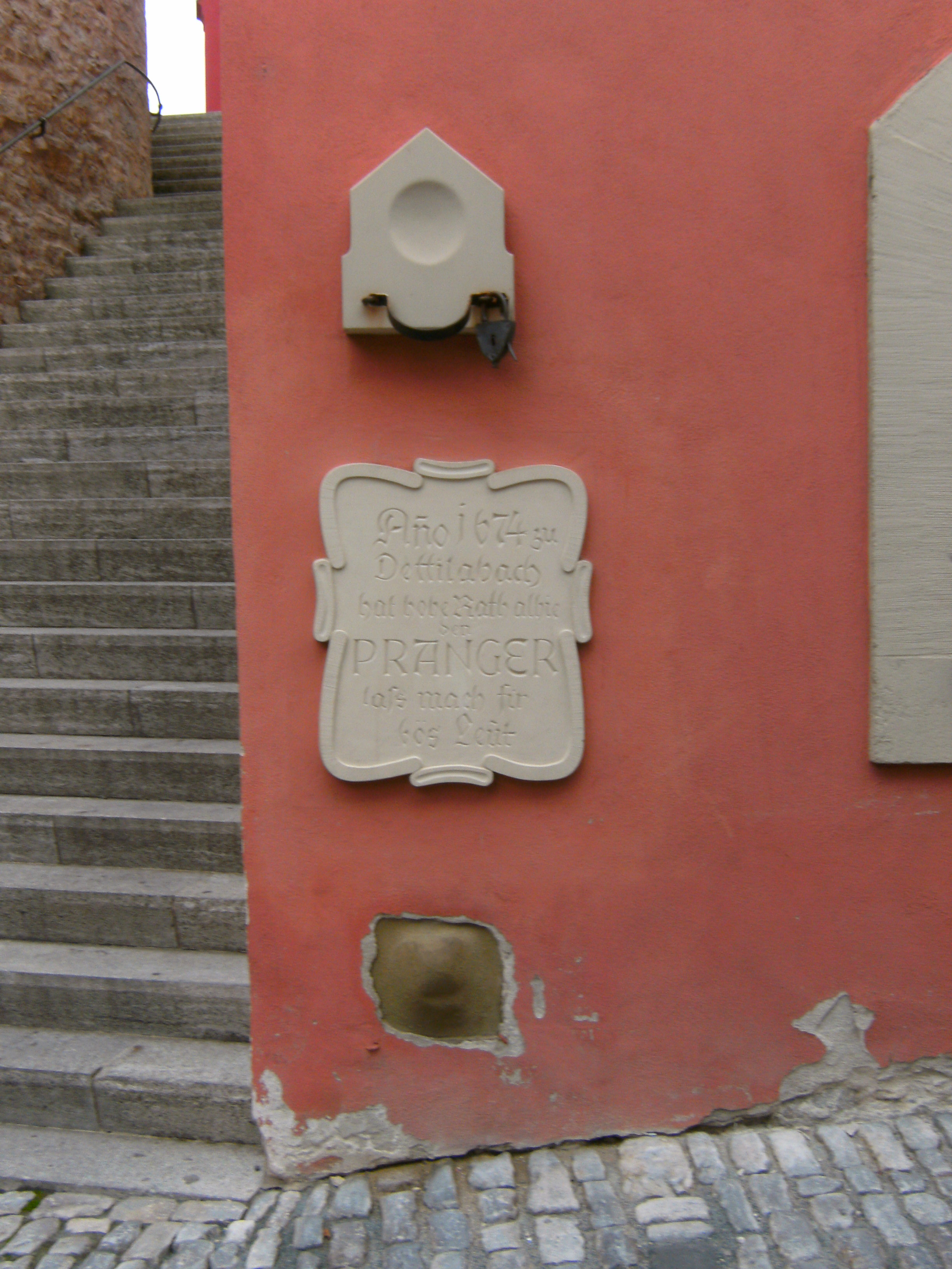 Dettelbach, Germany: Pillory at the stair leading to the church.